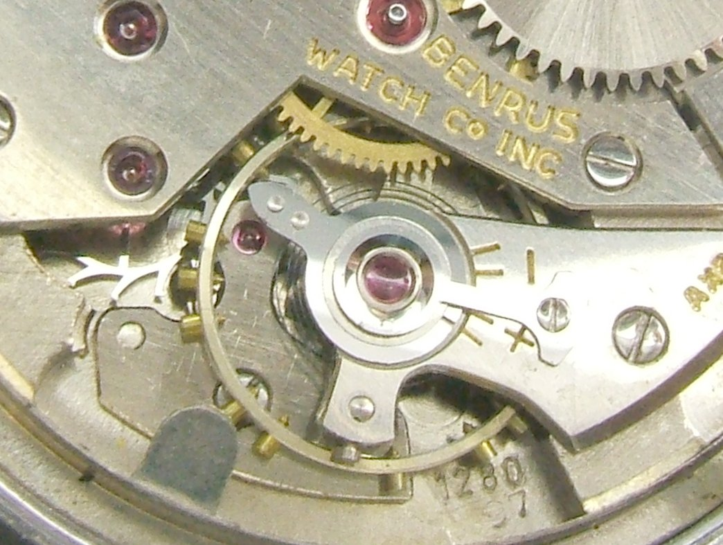 Alloy balance wheel in a 17 jewel manual wind DN21 watch made by Benrus Watch Co. probably in the 1950s. The movement is an ETA 1280, made by the Swiss ebauche maker ETA SA. The watch is accurate to about 20 seconds per day.